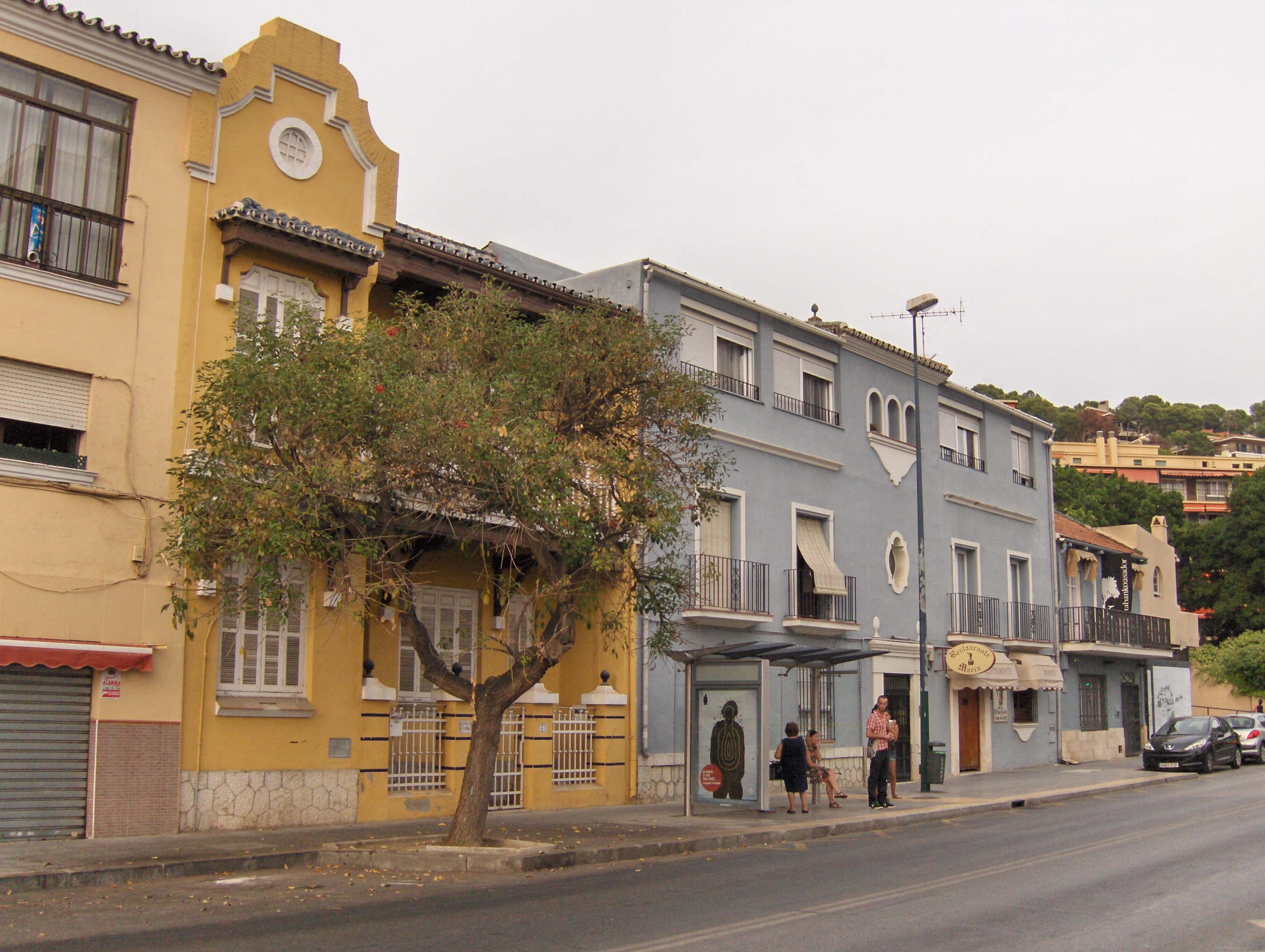 Houses in Bellavista, Málaga.